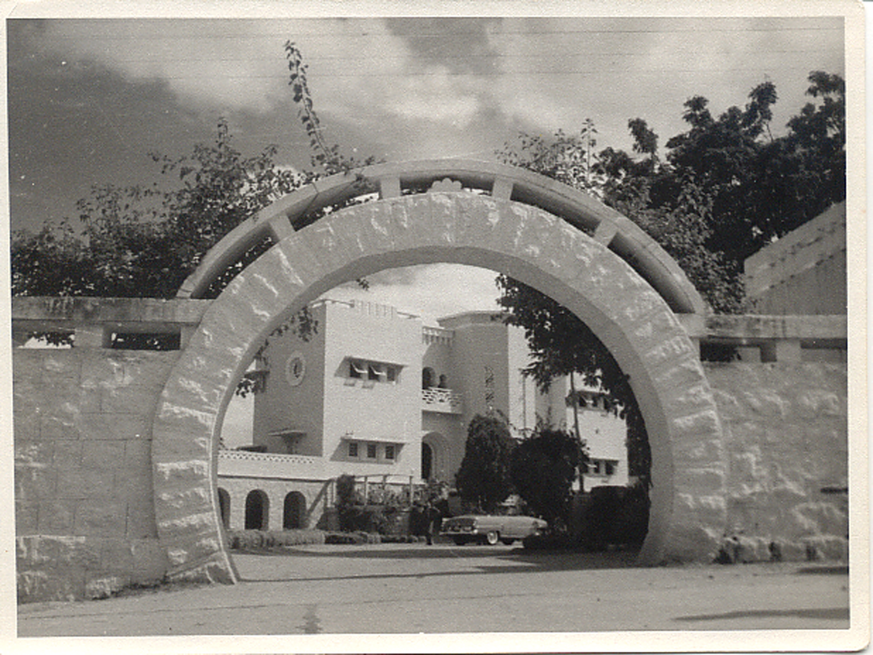 Alhambra, residence of architect Muhammad Fayyazuddin (1903–1977) was located on Road number 10 at Banjara Hills. Front of mansion seen through archway in entry gate. It was built in 1938 and demolished in 1996-97